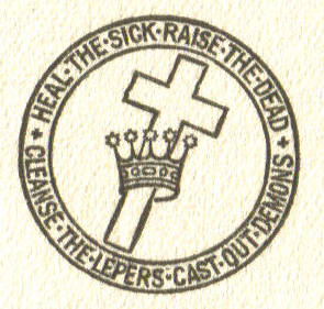 Christian Science logo from 1891